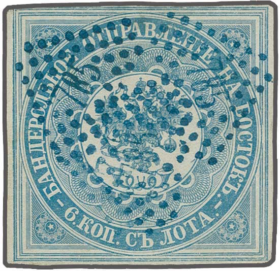 Russian Post Office in Alexandria, Russian Empire, 1863, 6 kopecks, indigo. A superb used example cancelled by three strikes of the dotted '785' numeral handstamp in blue. Exceptional and extremely rare, one of just two, perhaps three examples recorded thus (Mi. 1). Sold for CHF2,800.00 in 2015.